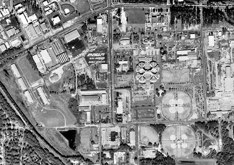 Aerial image of Tallahassee Community College, Florida